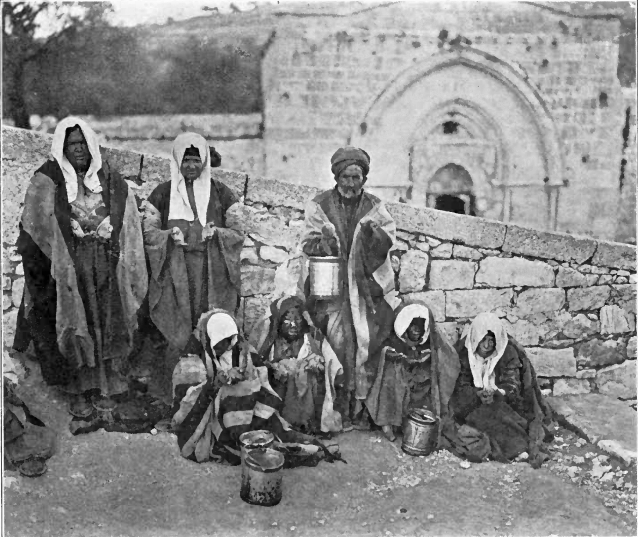 Lepers in Jerusalem 1913 outside Mary's Tomb in the Kidron Valley.